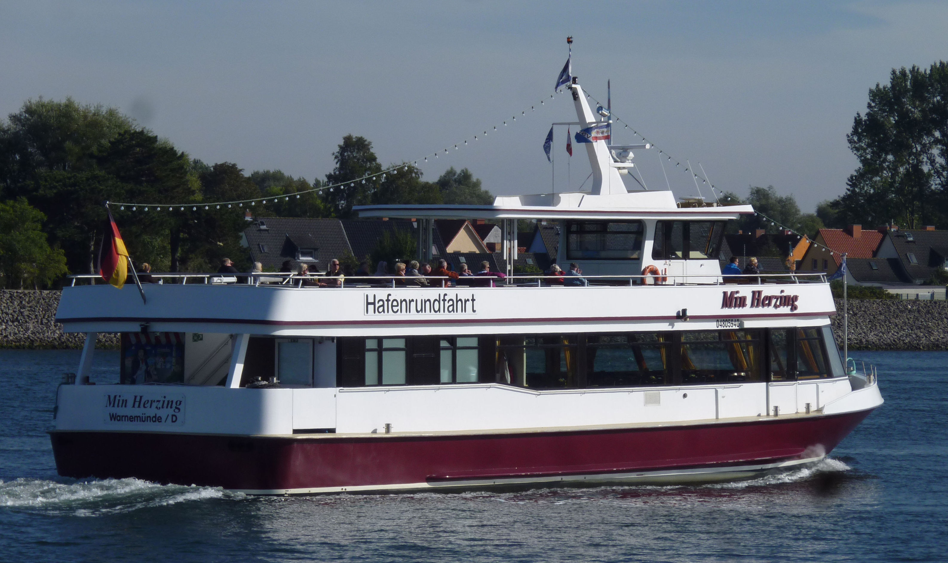 Passenger ship "Min Herzing", Warnemuende, Germany, Baltic Sea